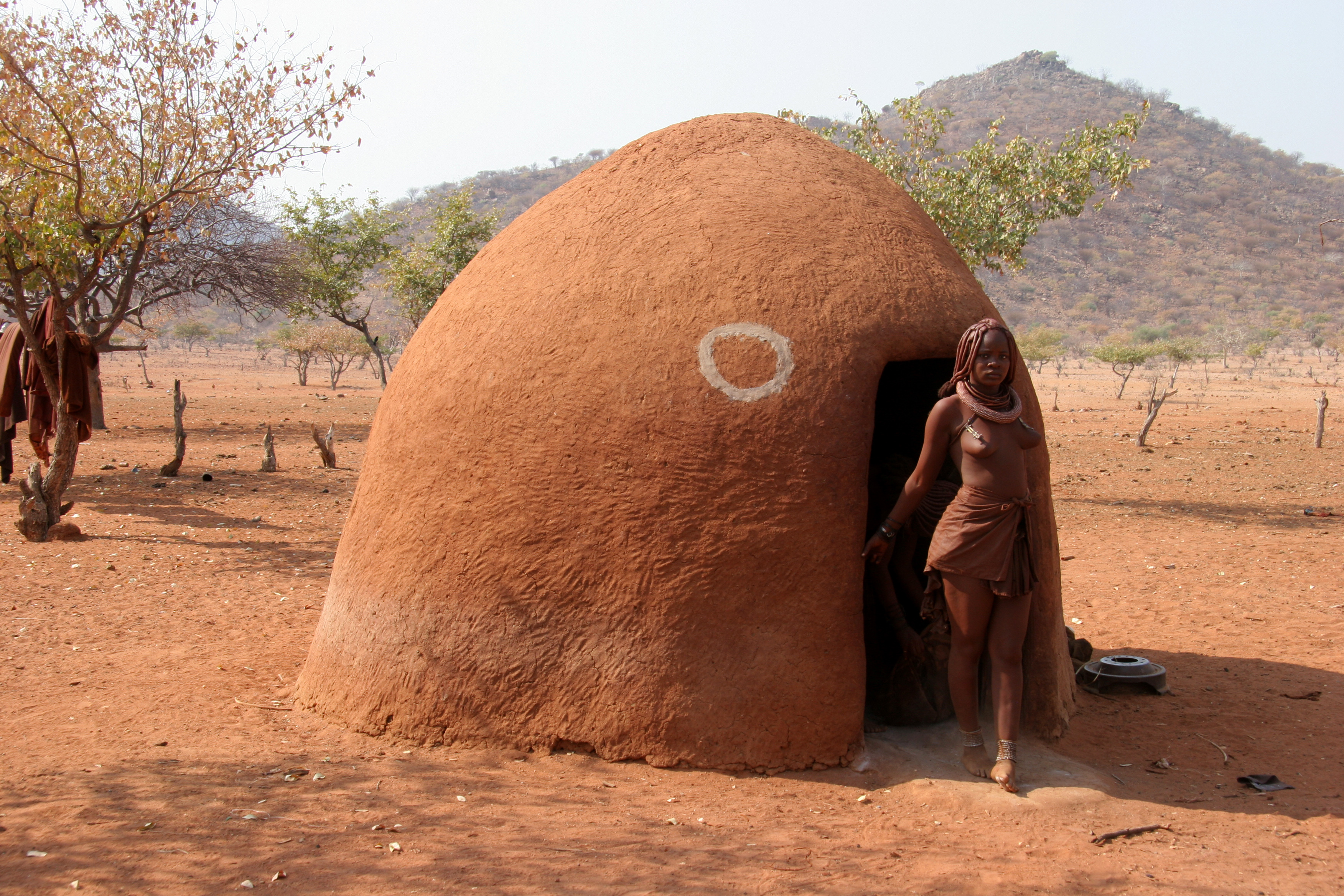 Namibia, Himba girl in front of her hut